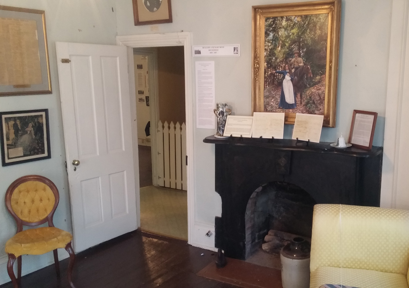 Belle Boyd museum in Martinsburg